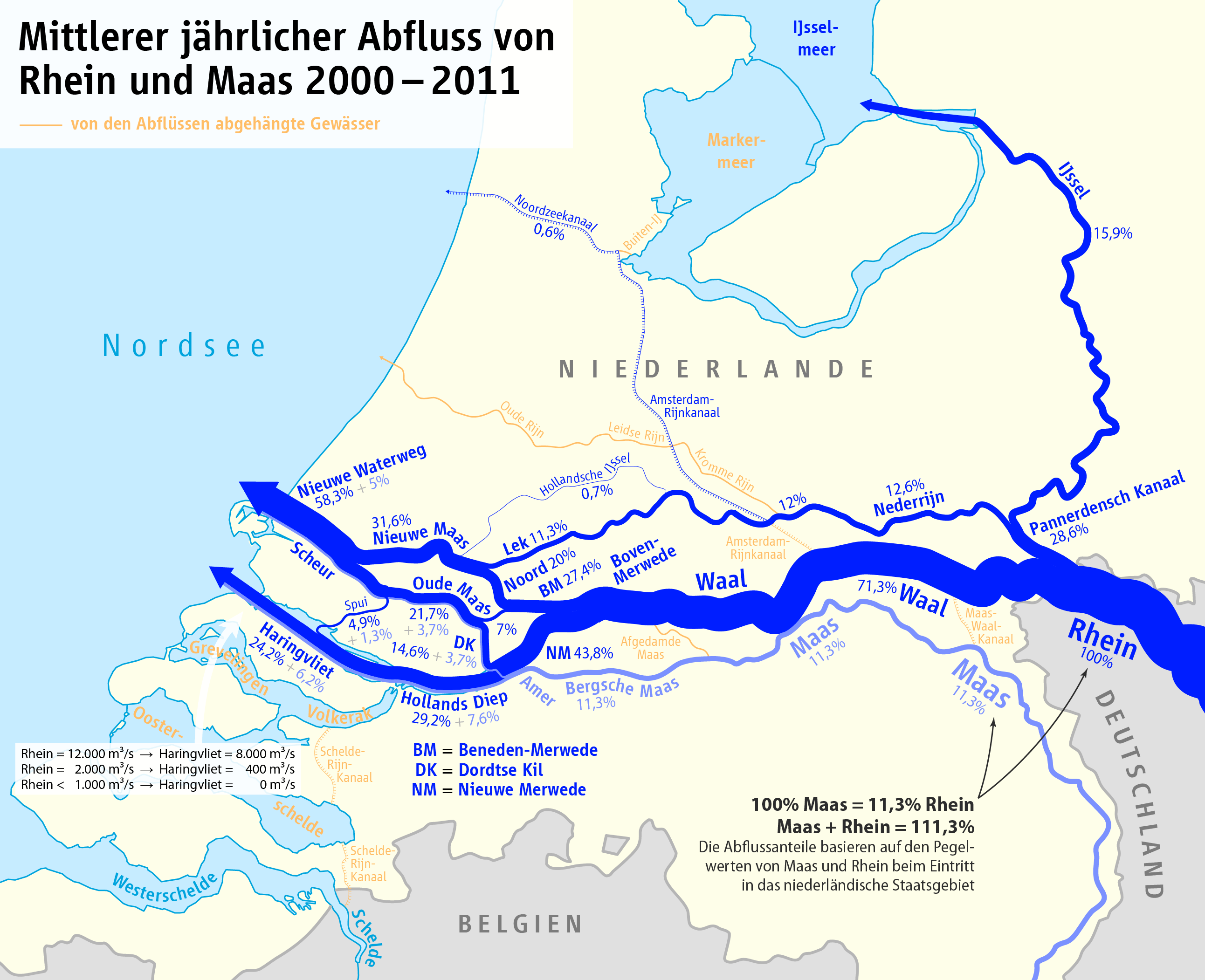 Map of the partition of Rhine and Meuse water among the various branches of their delta 2000-2011